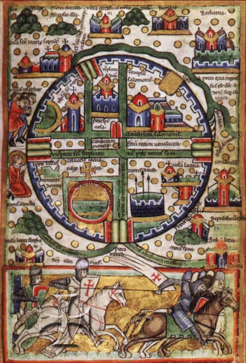 Maps of Palestina